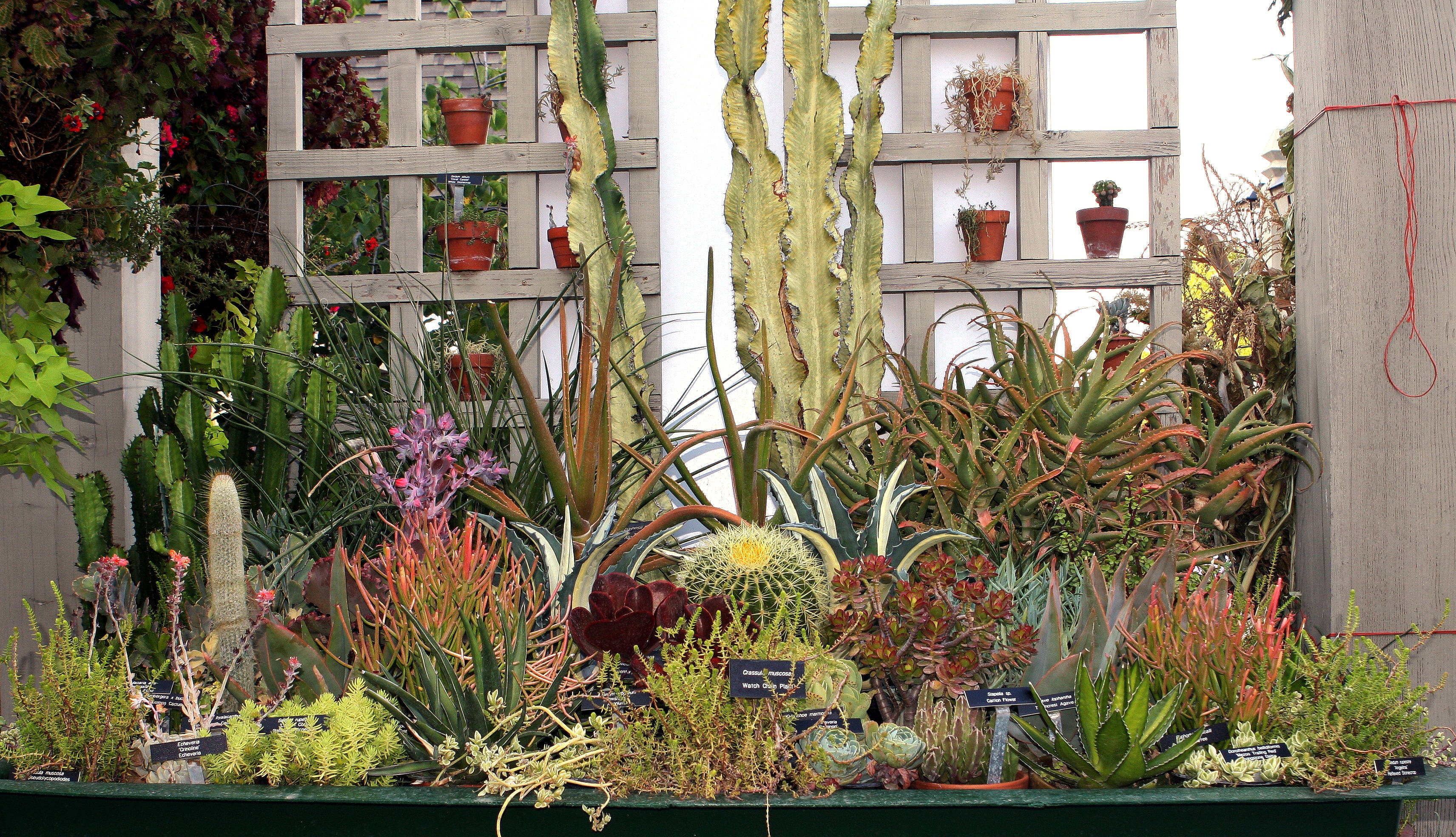 A collection of cultivated succulent plants.